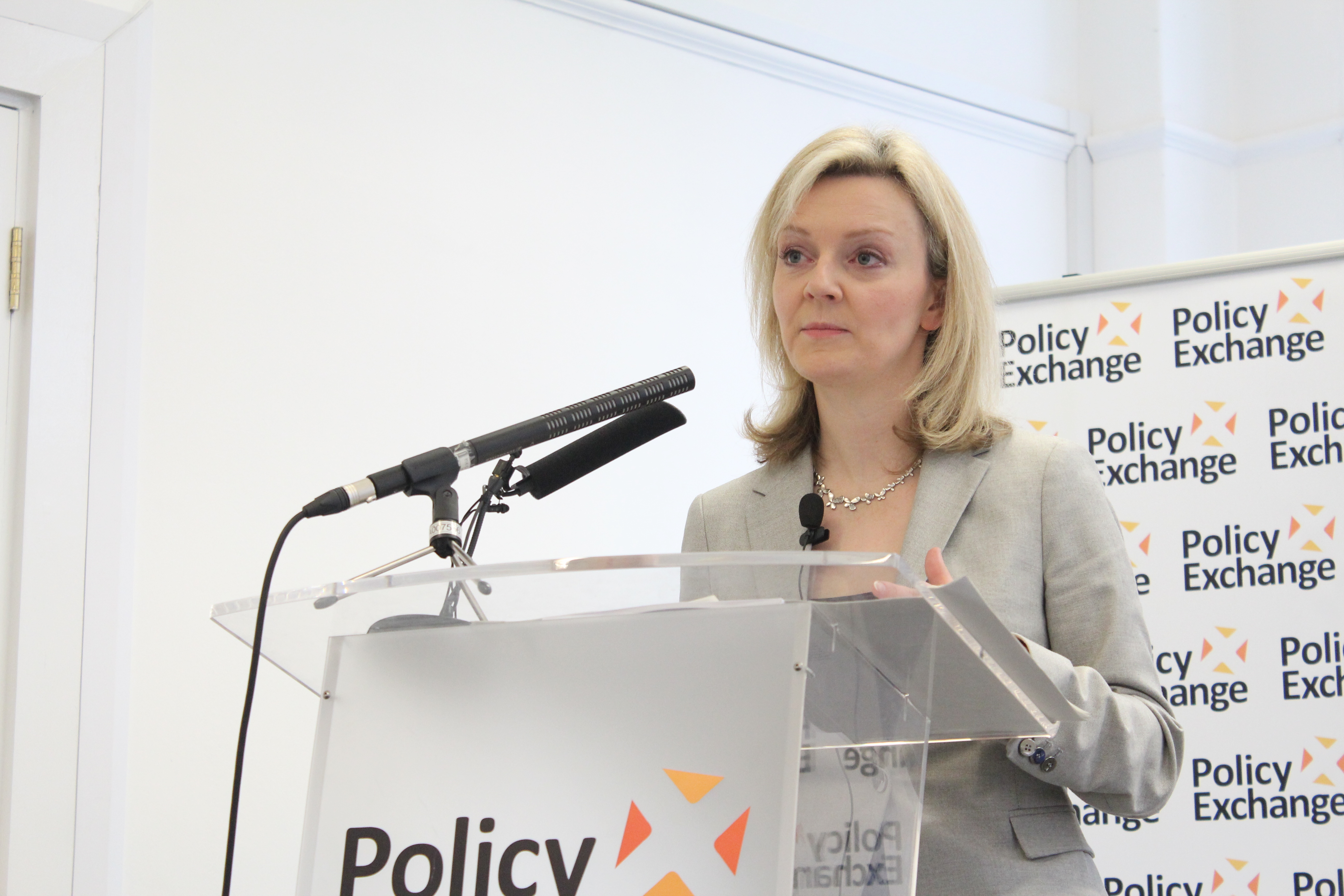 A copy of the speech can be found at